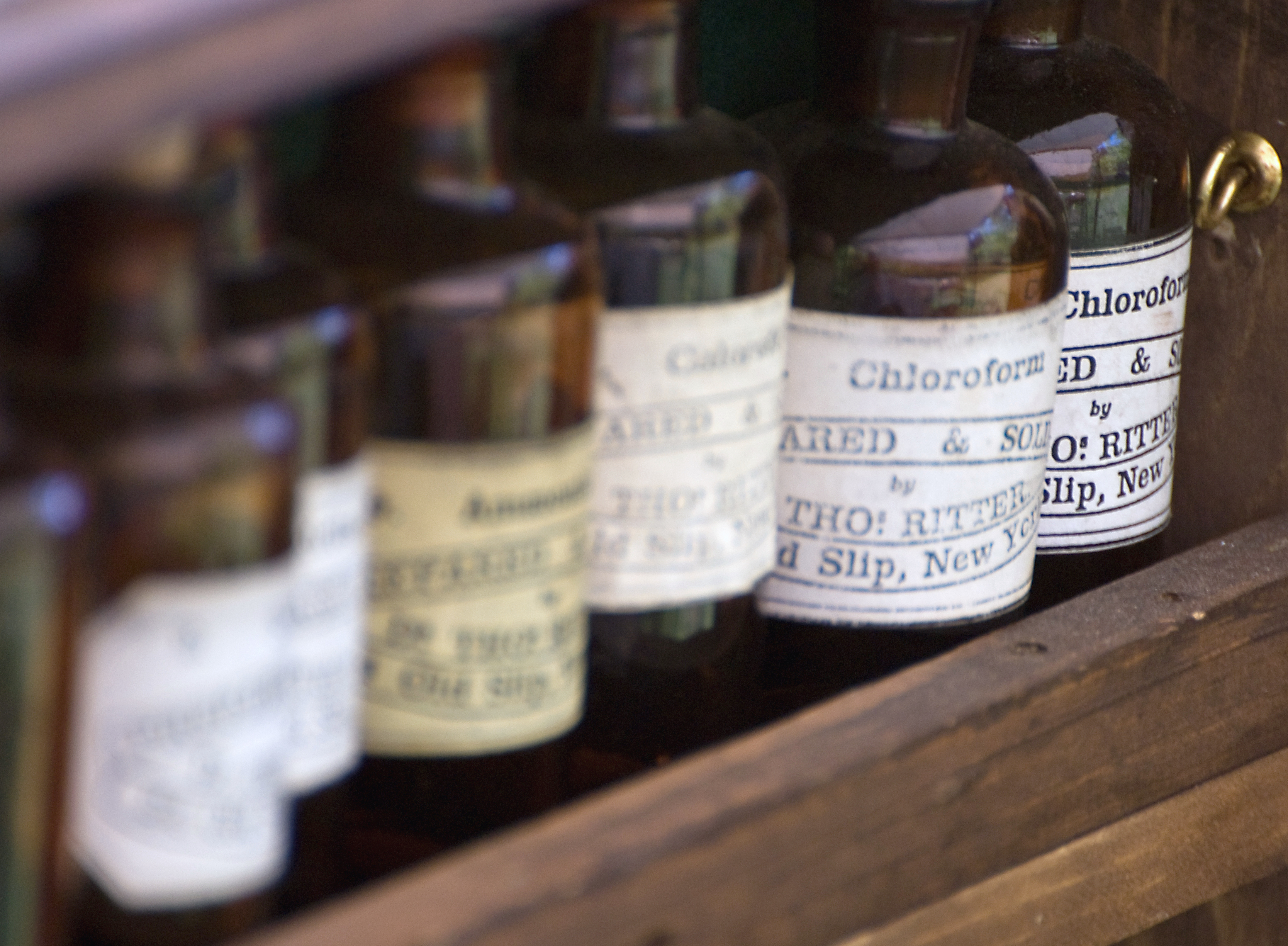 Bottles of Chloroform (original title "Chickamauga 2009, Chloroform")